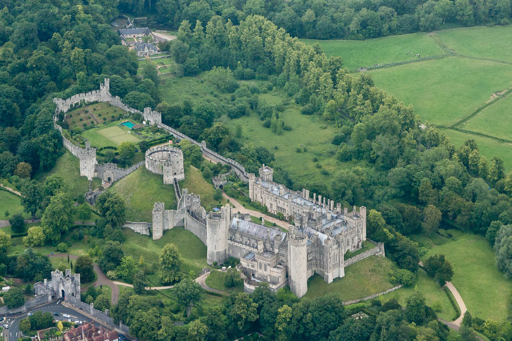 Arundel Castle, West Sussex, England as seen from a light aircraft.